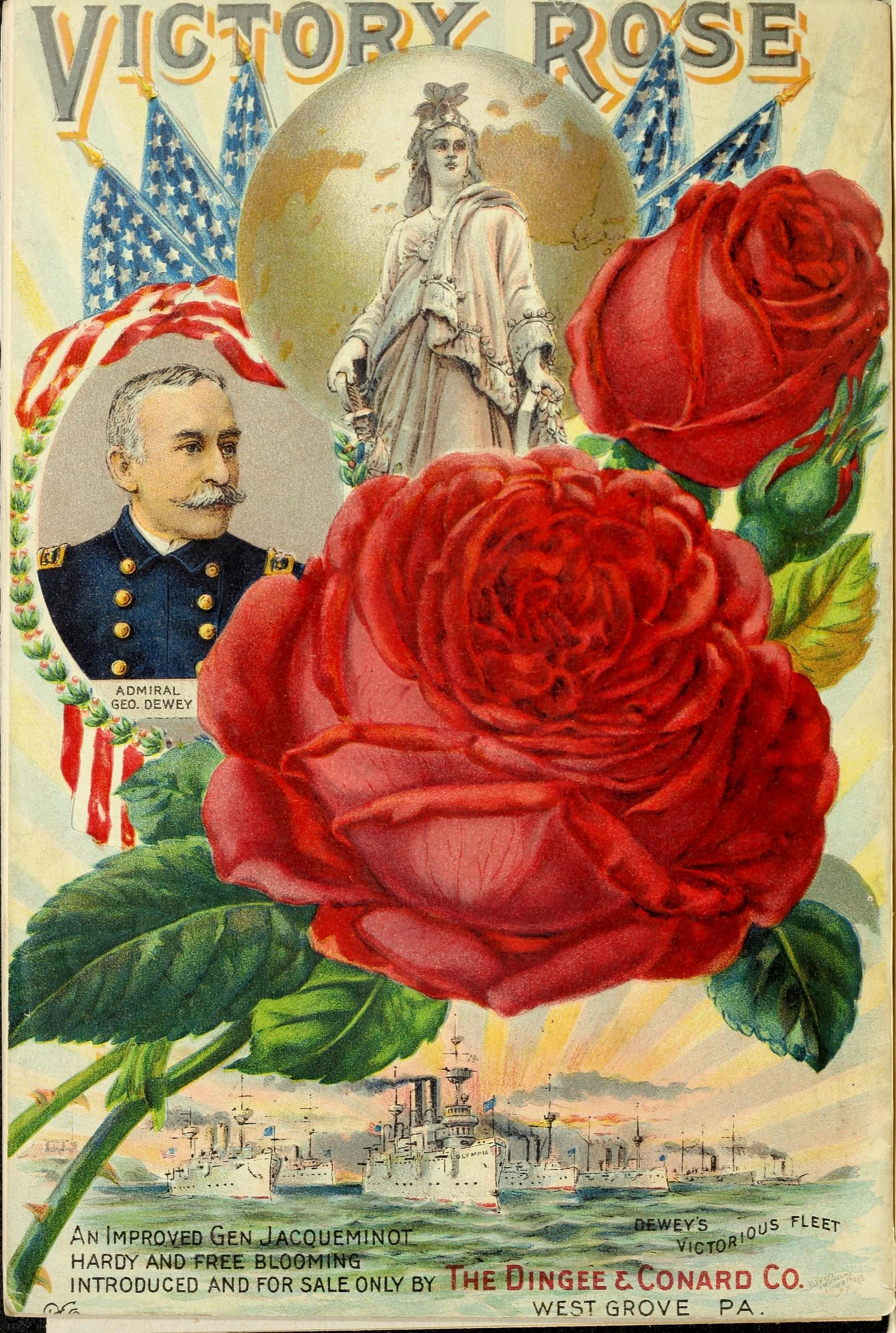 « ADMIRAL 'T^GEO. DEWEY -'- - i,i 'I- ■/ ¥ -u^^ ^f 7^'!^'-^^^'^? 4 H^ ---ai^-.*:!tt ~ffN%J.j5^ .^ afeWEY'S 'qJS ^leht - Victor' An iMPRO.Y£D Gen Jacqueminot. HARDY AND FREE BLOOKtN^ ' ^^ W -""' «. - - -^ /. -. INTRODUCED AND FOR SALE ONLY BY SHE tJlNGEE LEONARD tO. ^rv^^ WEST GROVE PA.